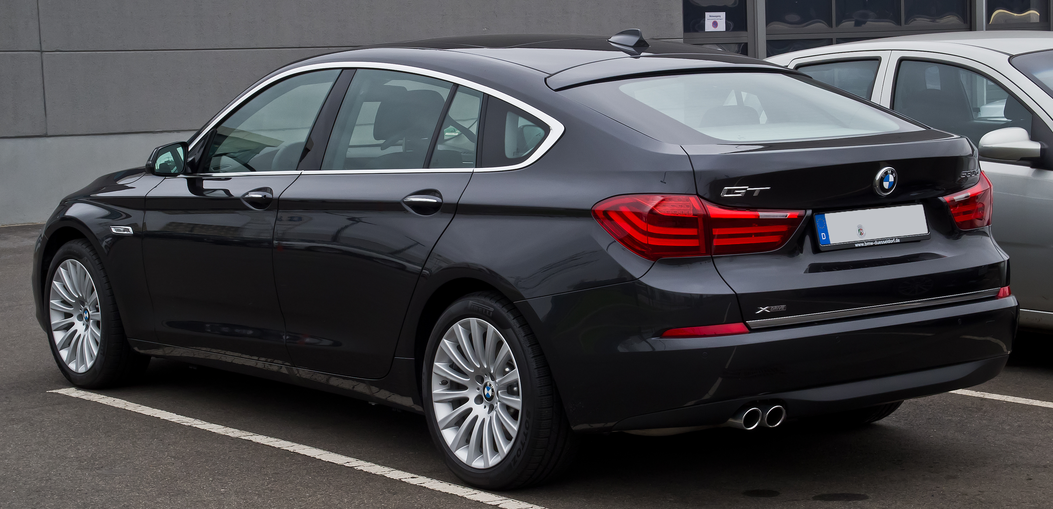 BMW 530d xDrive GT Luxury Line (F07, Facelift)